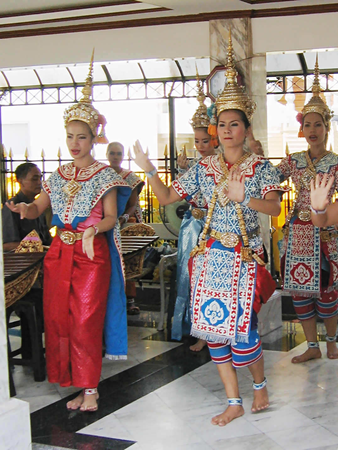 Traditional Thai dance performed for Brahma god at Erawan Shrine, Bangkok, Thailand.